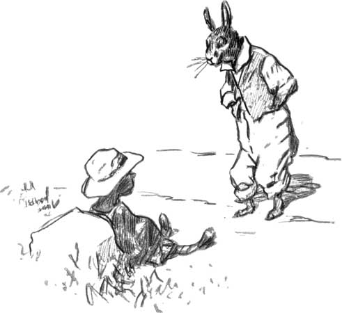 Illustration of the Br'er Rabbit and the Tar-Baby.